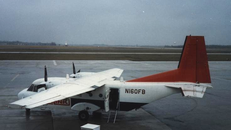 CASA C-212-200 N160FB of Northwest Airlink at Flint, Michigan